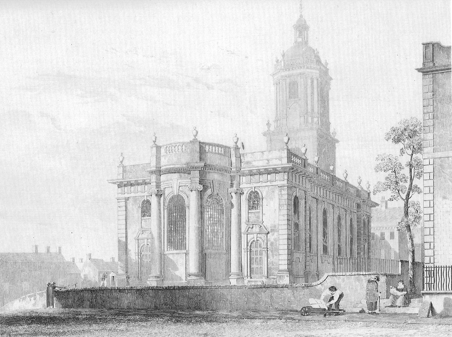 Engraving of St Paul's parish church, Pinstone Lane, Sheffield, West Riding (now South Yorkshire), seen from the east